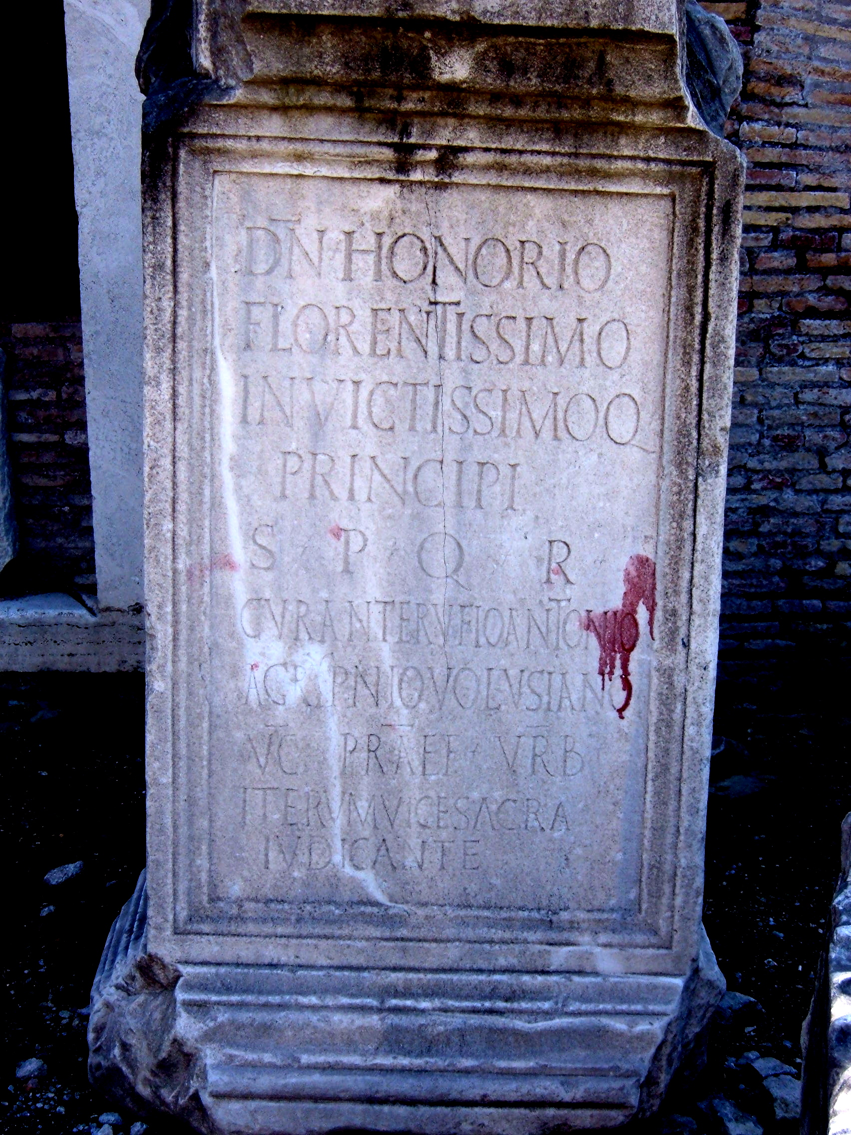 CIL VI 1194, Inscription dedicated to Honorius by Rufius Antonius Agrypnius Volusianus in his second (iterum) term as praefectus urbi. The latter indicates it was erected in AD 418